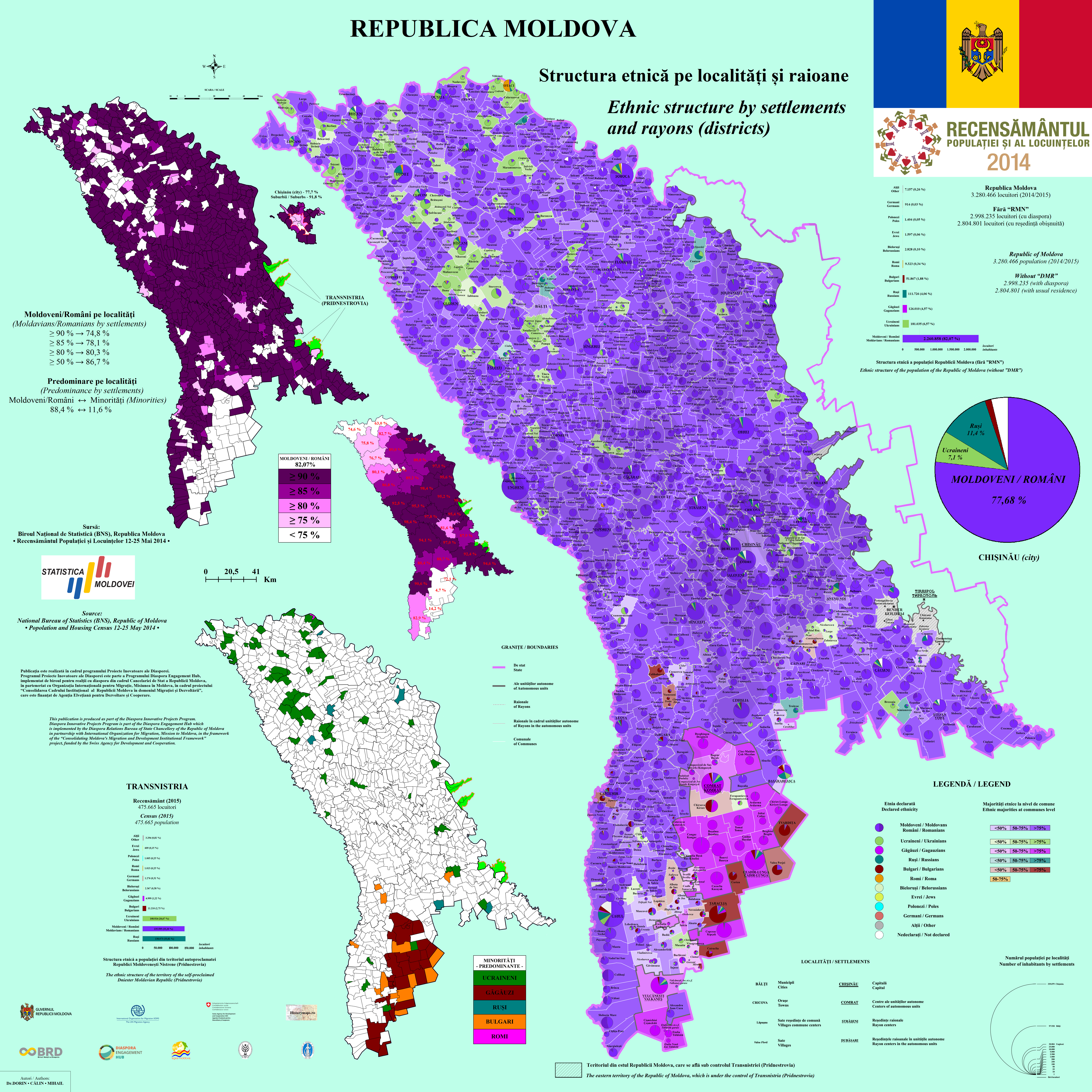 Ethnic map of Moldova (2014 data)